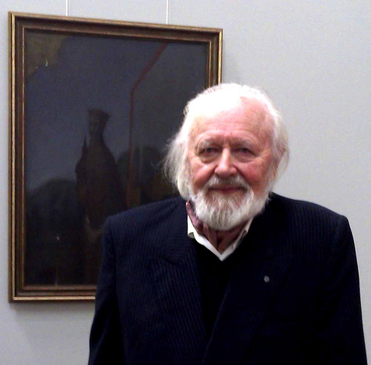 Belarusian painter Gauriil Vashchenko in his exposition at the Belarusian National Arts Museum, 12 december 1013.